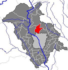 This map shows the area of the Gemeinde (municipality) Stattegg in the Bezirk (district) Graz-Umgebung, Styria, Austria.